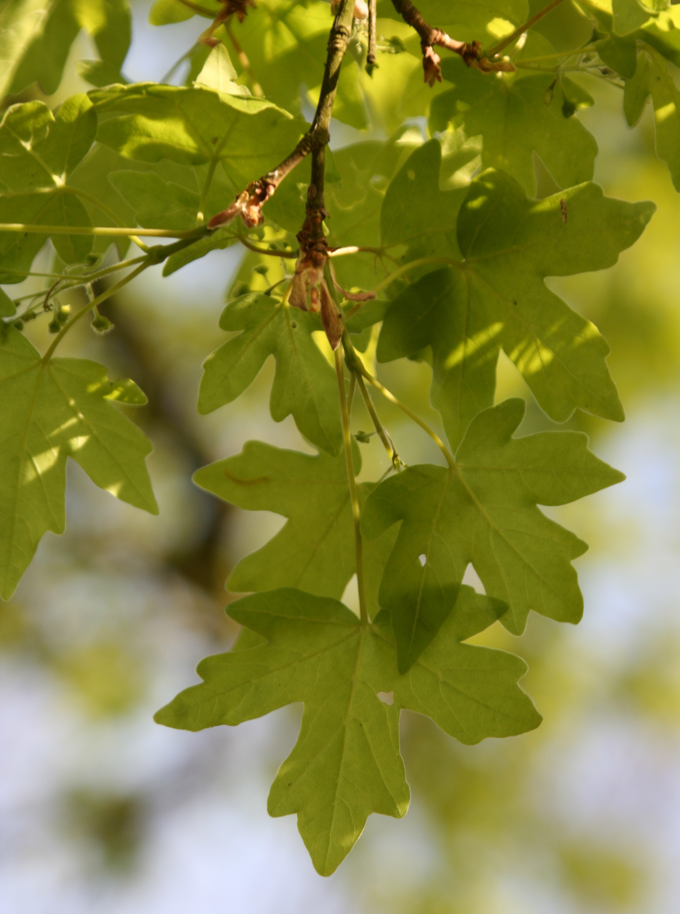 Acer campestre in Weinsberg